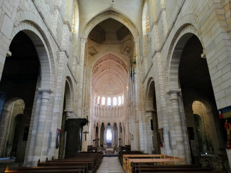 Interior of the Church of Notre-Dame de La Charité-sur-Loire.